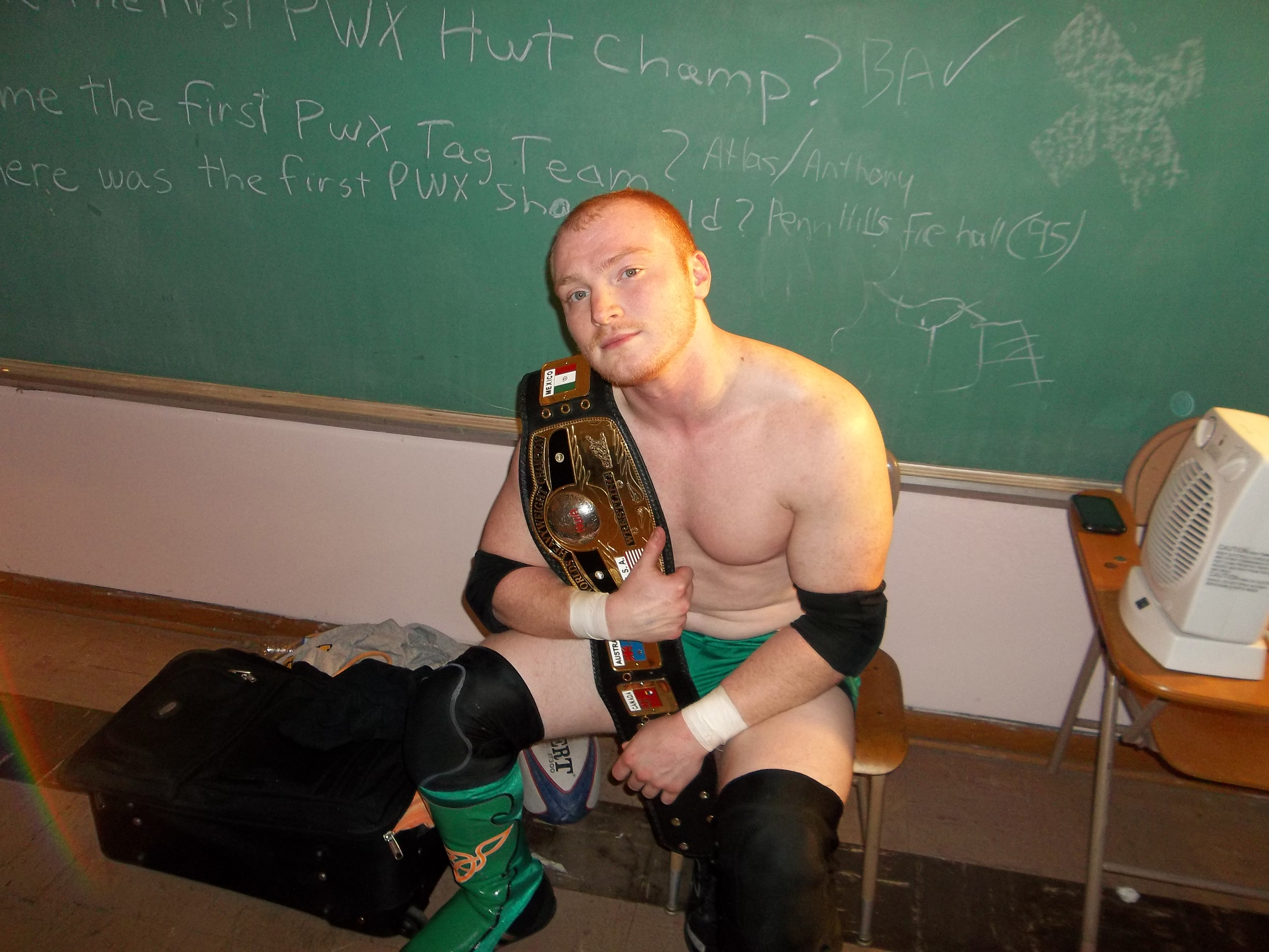 Stryder With The Pro Wrestling eXpress Heavyweight Title